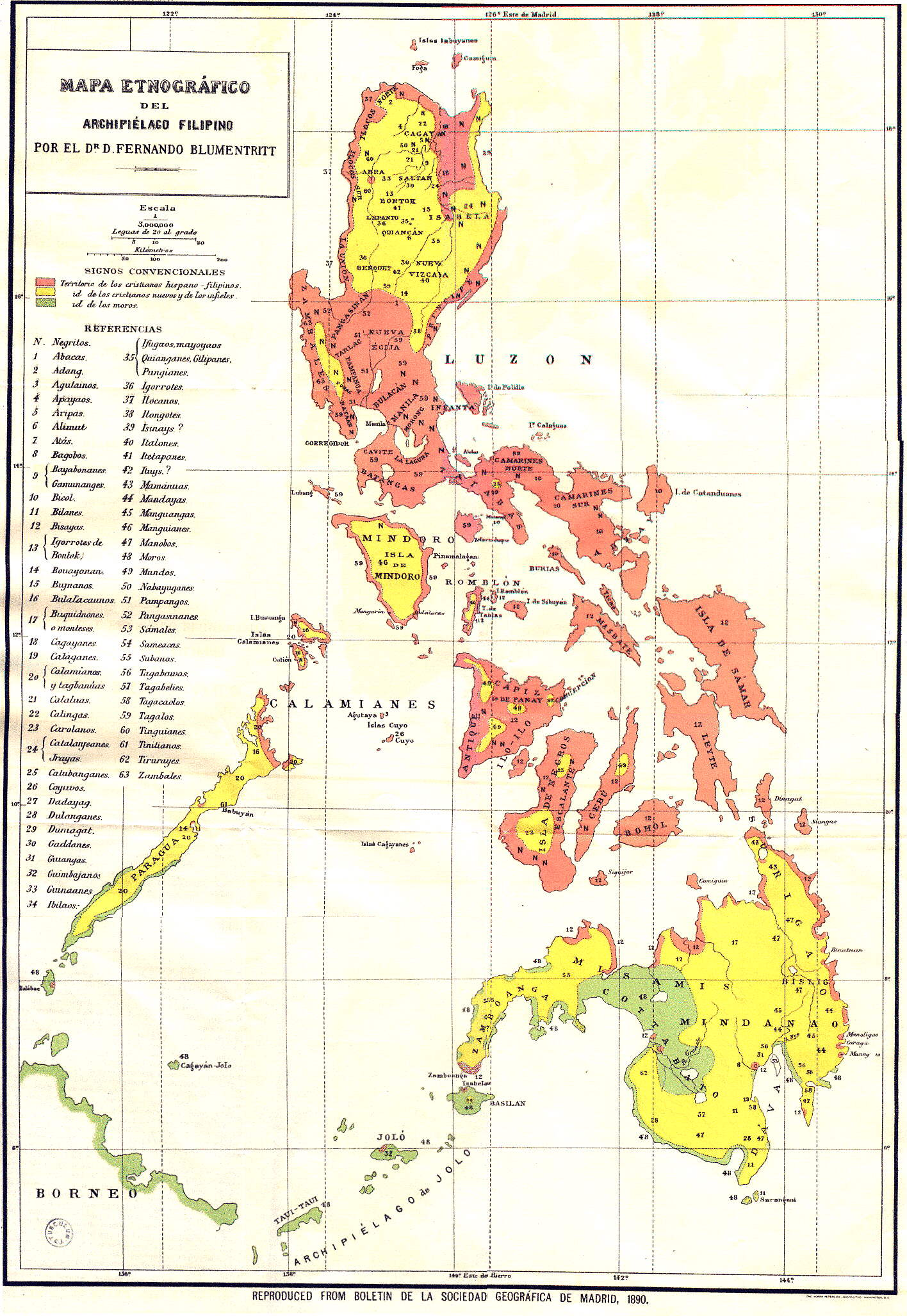 A 1890 Maps of the Philippines — depicting the distributions of its tribes and languages. For.